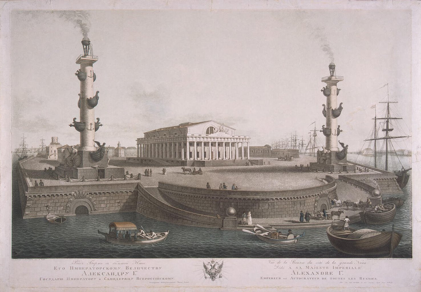 View of the Bourse from Bolshaya Neva (1810s). Etching with watercolour, 55.5x81 cm. State Hermitage.